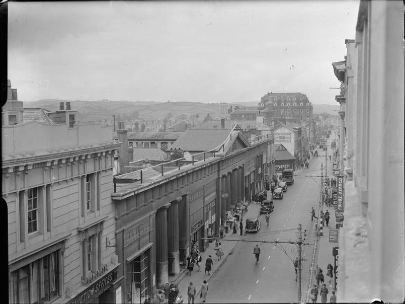 A Middle East Soldier Revisits Britain- Life in Wartime Exeter, Devon, England, UK, October 1943 A view down Queen Street, Exeter, taken from the upper window of a building, looking across the shops to the hills and countryside beyond. Several cars can be seen, although the road is quite empty of traffic. Pedestrians can be seen going about their daily business. The large shop on the left, complete with columns and portico is 'Eastman's Ltd'. Further down the street, a sign reads: 'To-Day's Good Deed: Help YOUR Hospital. Contributions urgently needed'. Beyond that can be seen the Central Garage. On the right hand side of the photograph, the Queen's Hotel is just visible. A sign for 'Helen Tomlinson Ladies Hairdresser' can also just be seen.